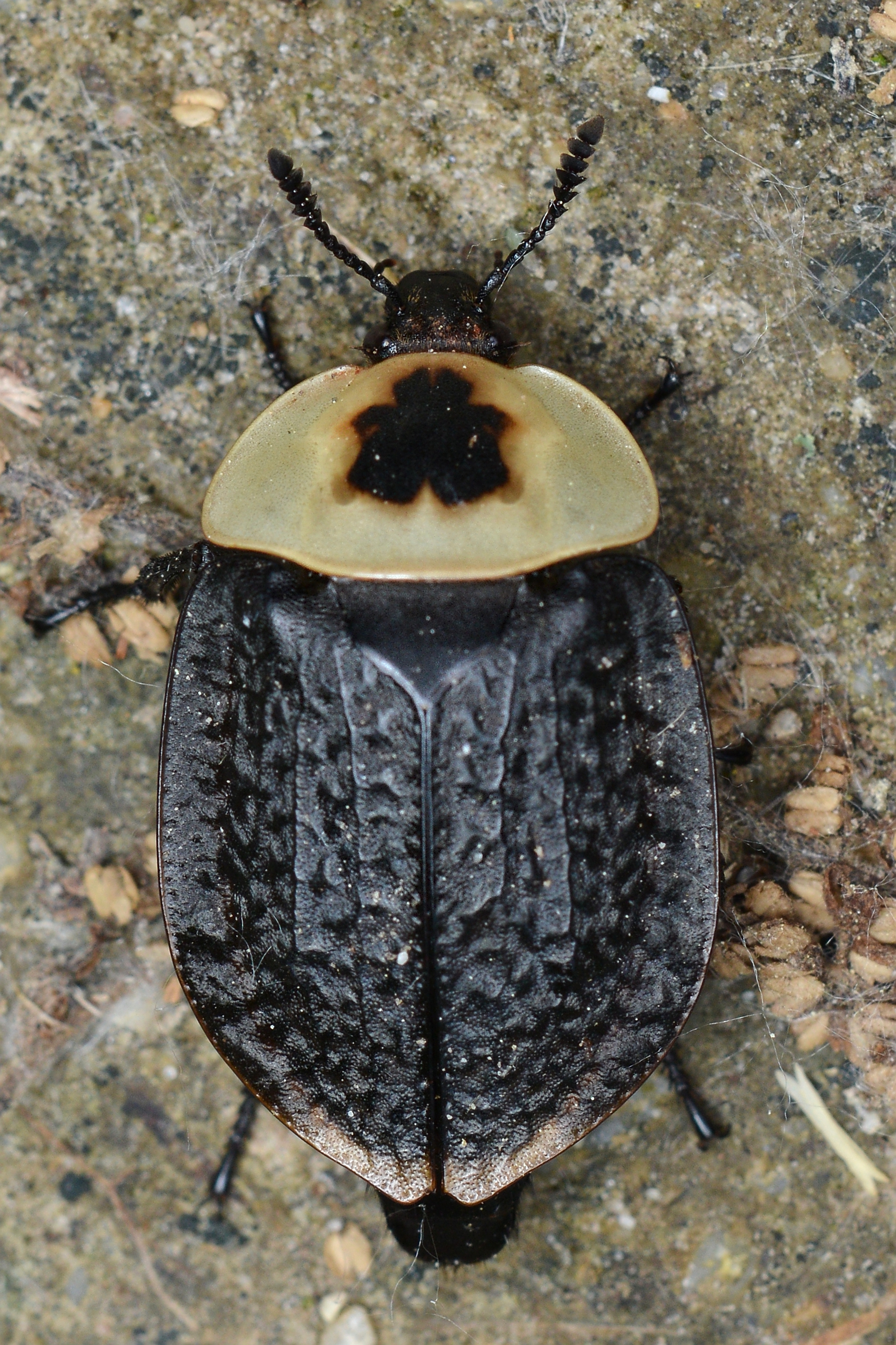 American Carrion Beetle (Necrophila americana) in Mississauga, Ontario, Canada.